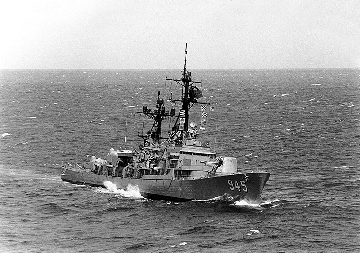 The U.S. Navy destroyer USS Hull (DD-945) underway in the Pacific Ocean, during initial shipboard trials of the Mark 71 203 mm /55 Major Caliber Lightweight Gun, on 17 April 1975.